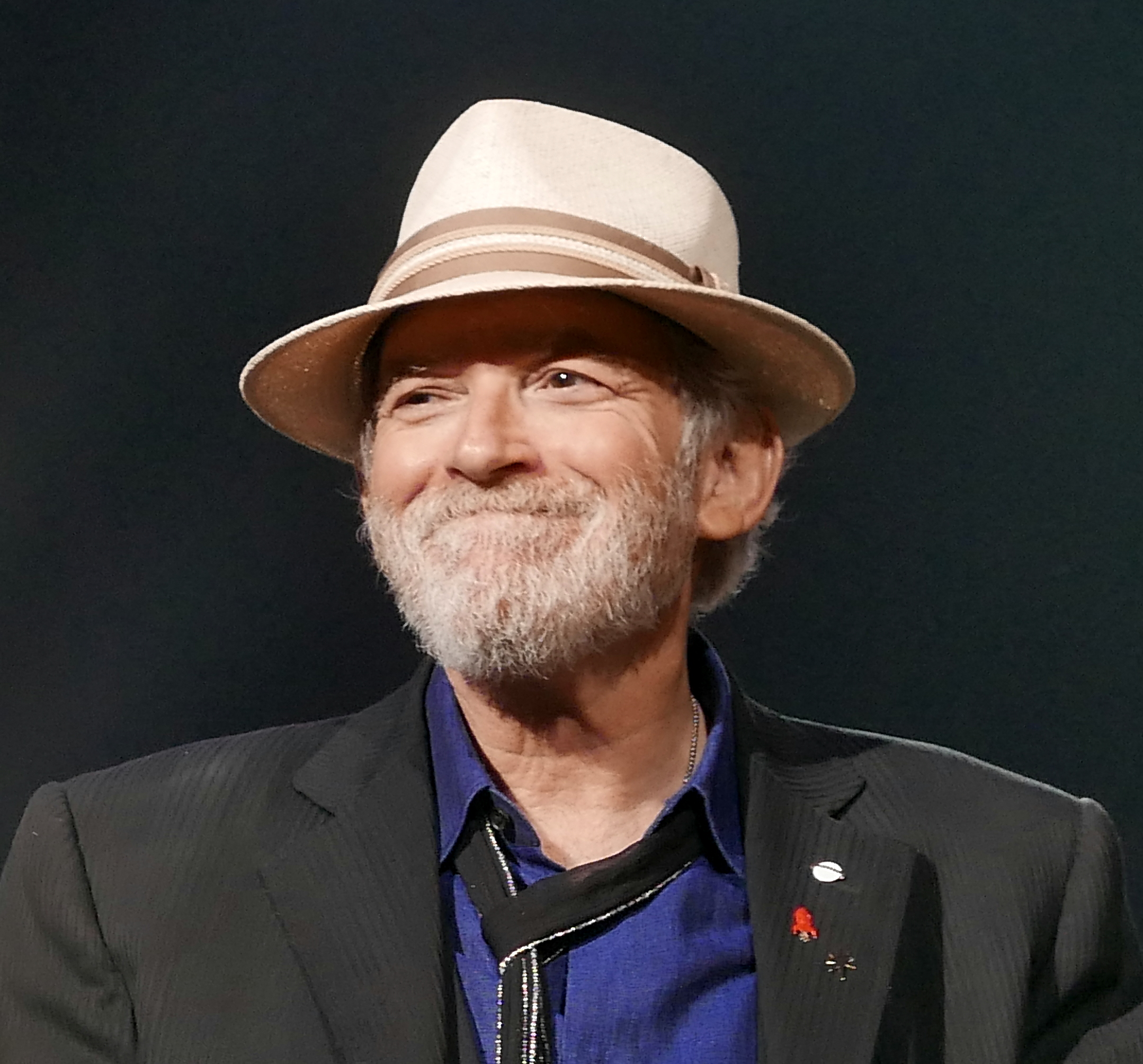 Benmont Tench performing with Tom Petty and the Heartbreakers in Berkeley, CA, on August 28th, 2017.